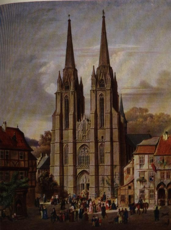 Elisabeth-Kirche Marburg (copyright expired by age)